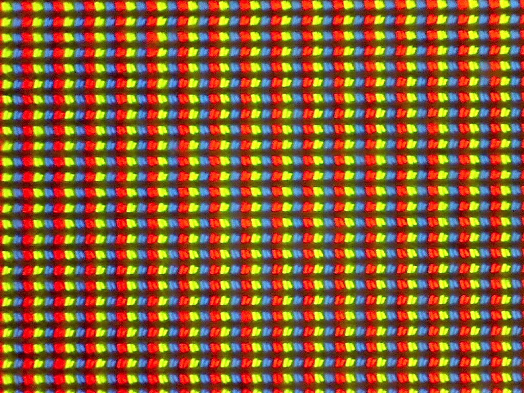 The dual domain IPS panel on an IBM T221 monitor, viewed with a 200x microscope.